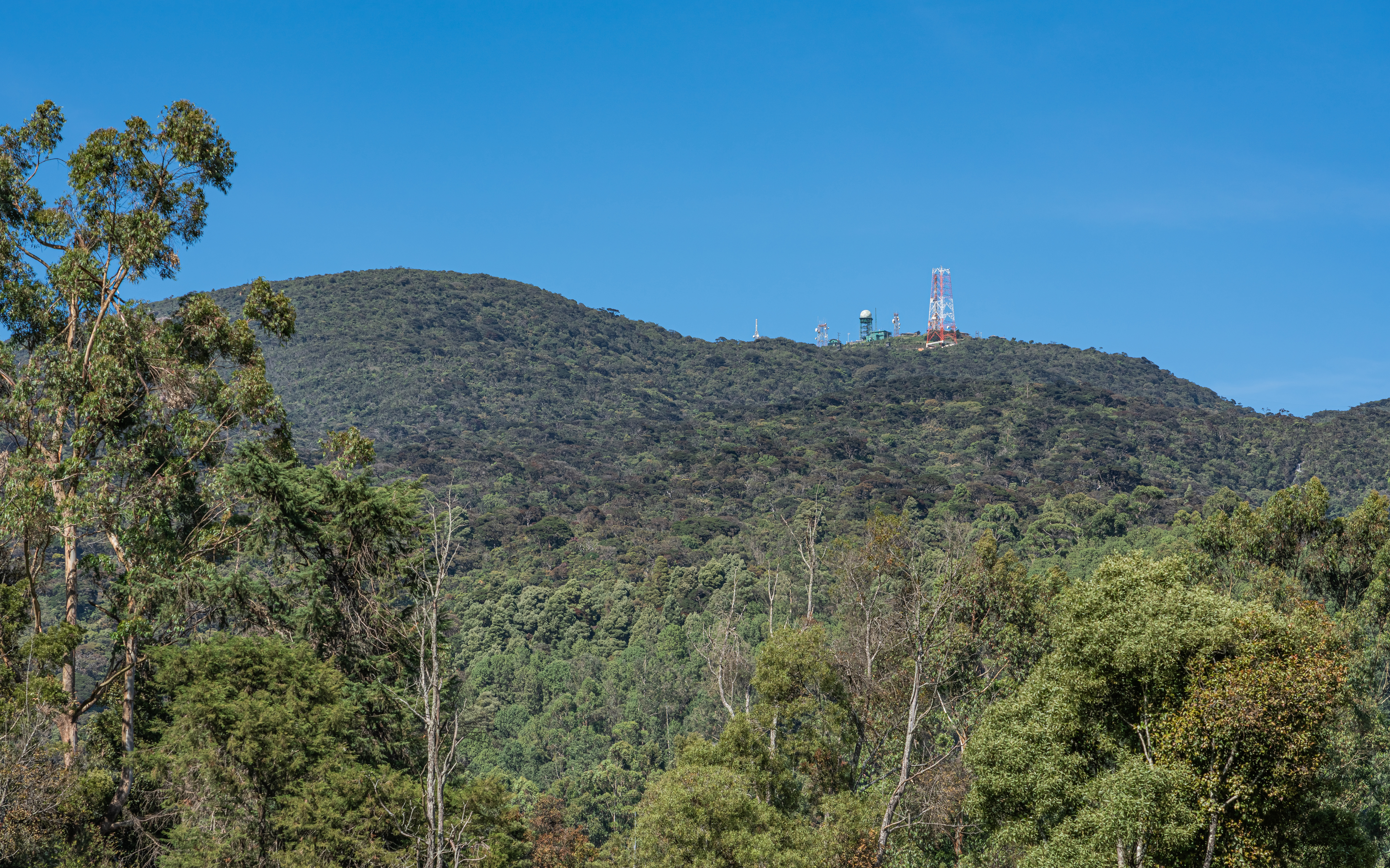 View of Mount Pedro (or Pidurutalagala) from Nuwara Eliya, Sri Lanka